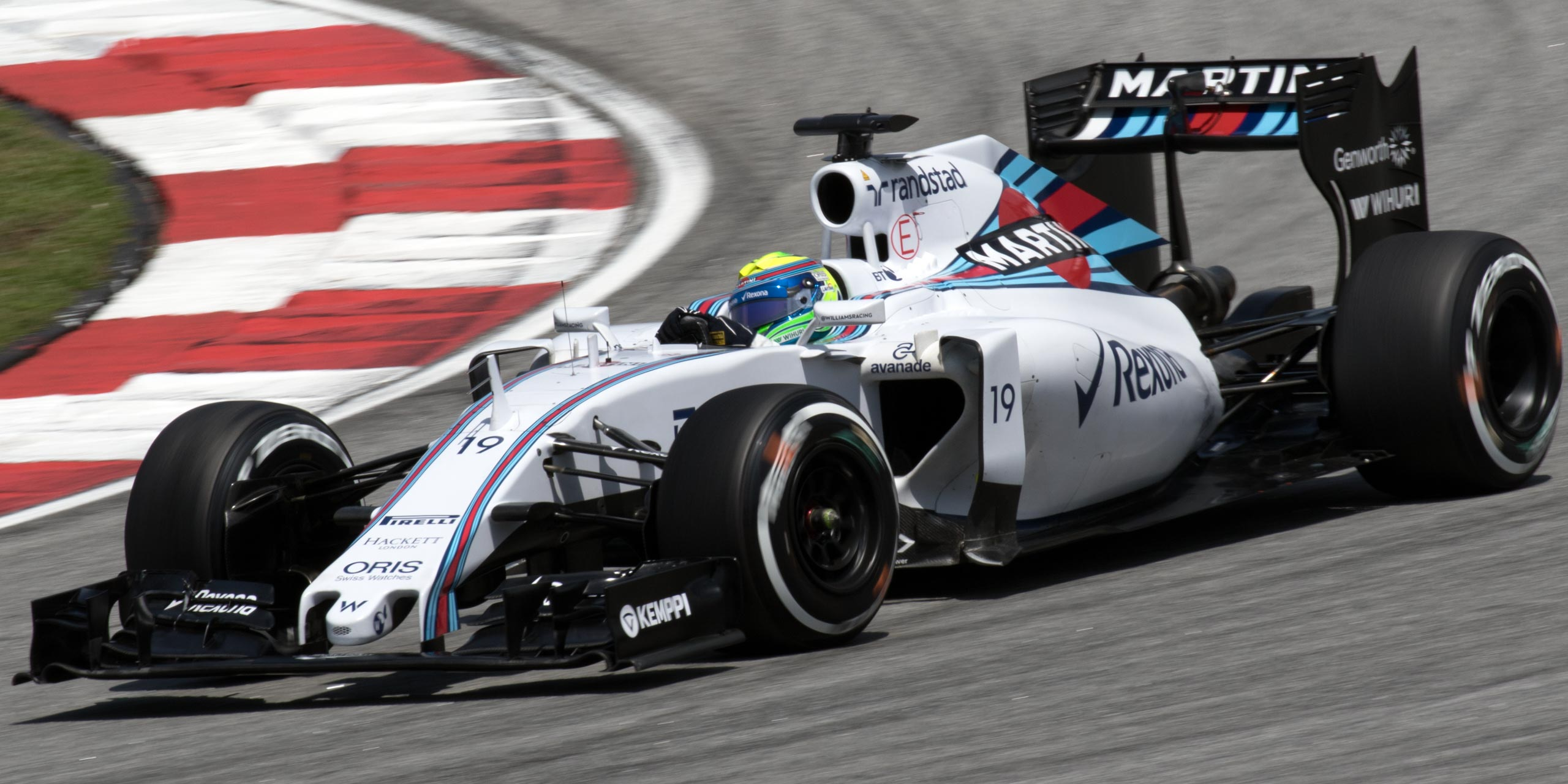 Formula One 2015 Rd.2 Malaysian GP: Felipe Massa (WilliamsF1)